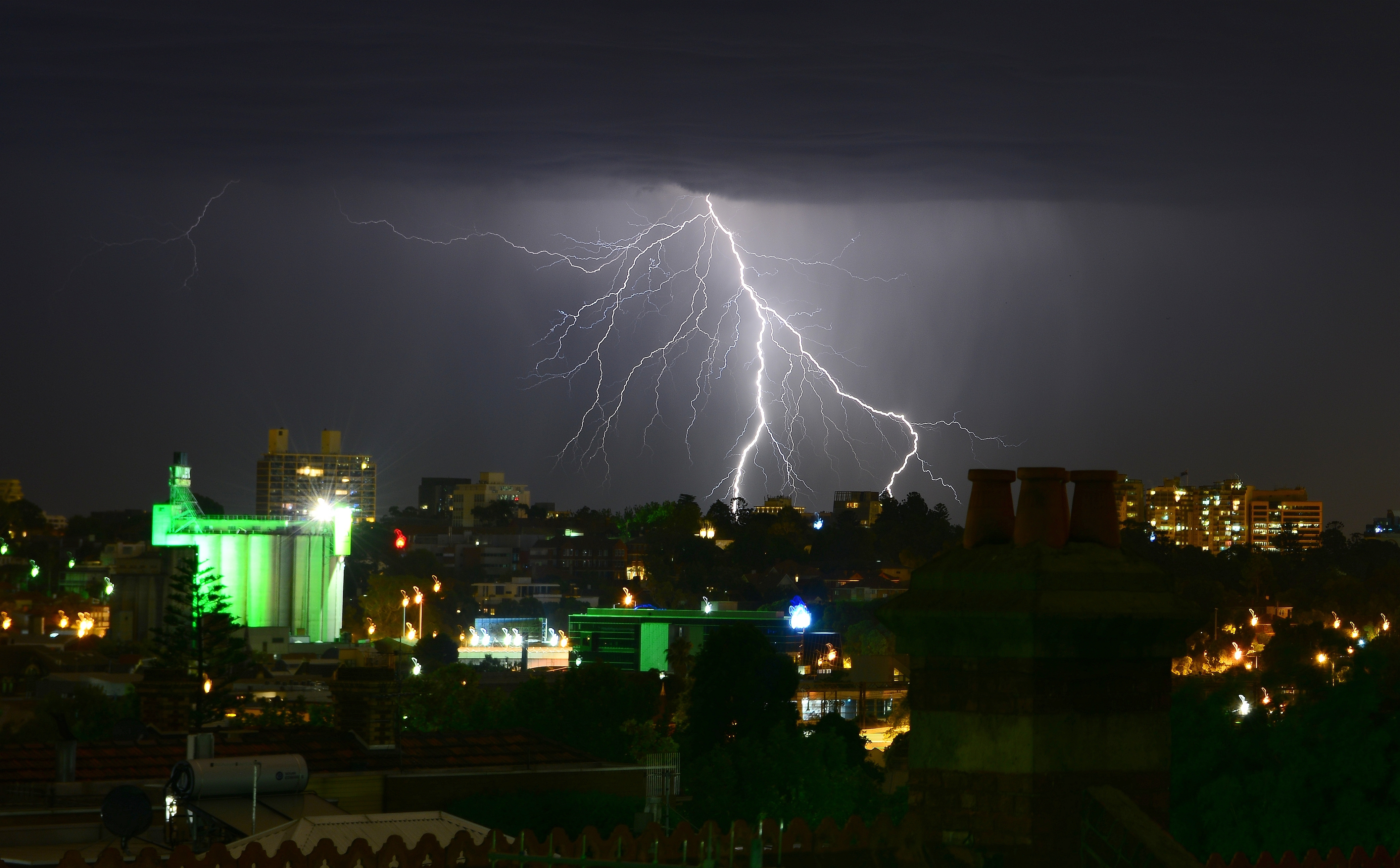 Picture taken at Richmond, Victoria over looking St. Kilda Rd and beyond over the bay. (15th January 2014) I decided to try and and take pictures of lightning which can be tricky not knowing where to point the camera sometimes. The evening light show comes at a time when temperatures reached mid 40 degree Celsius again today in Victoria and will do so again for the next 2 days. The expected cool change is expected to come late Friday much to the relief of many Victorians.